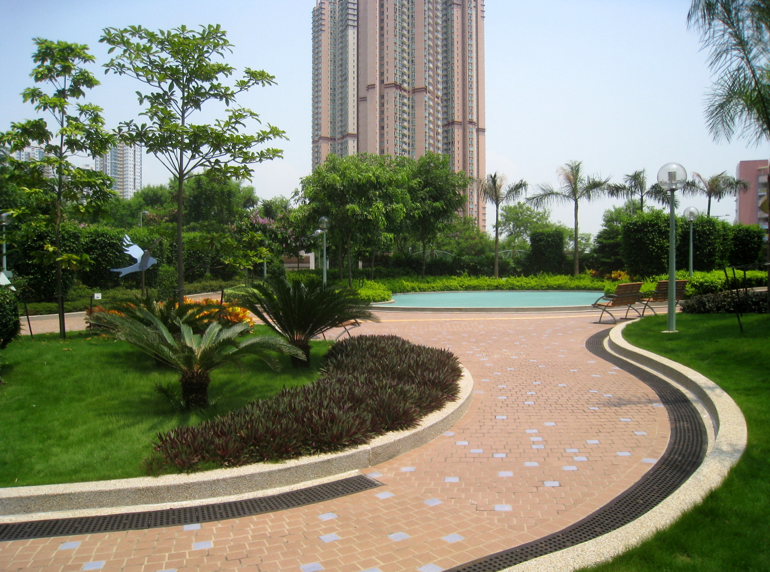 Tin Ching Estate Open space